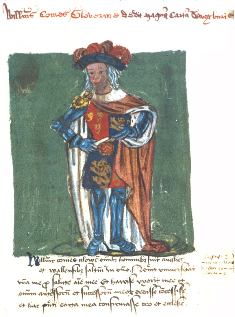 William Fitz Robert, 2nd Earl of Gloucester (1121–1183) presents his "great Charter" to Tewkesbury Abbey. Latin text: Above: Willielmus Comes Glou... dedit magna carta Twoxberi ("William Count of Gloucester gave his great charter to Tekesbury"); Below: Willielmus comes Glowc omnibus hominibus suis Anglicibus et Wallensibus salutem. In Domine nomine...Pro salute anime mea et Hawise uxoris mea et omnium ancessorum et successorum meorum dedisse cocessisse et hac carta mea confirmasse deo et ecclesie... ("William Count of Gloucester to all his men English and Welsh, greetings. In the name of God...and for the salvation of my soul and that of my wife Hawise and of all my ancestors and successors I have given, conceded and by this my charter confirmed, to God and the church...")